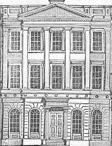 AS File